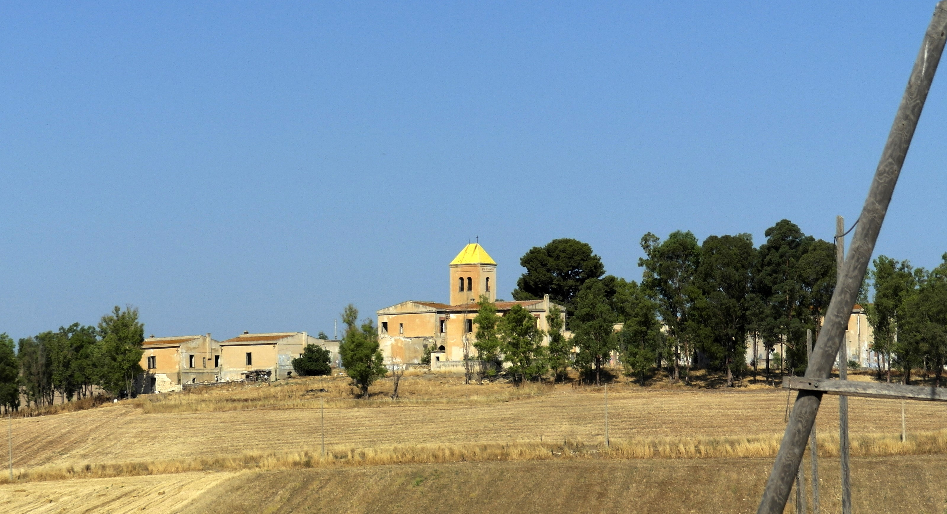 Borgo Schiro